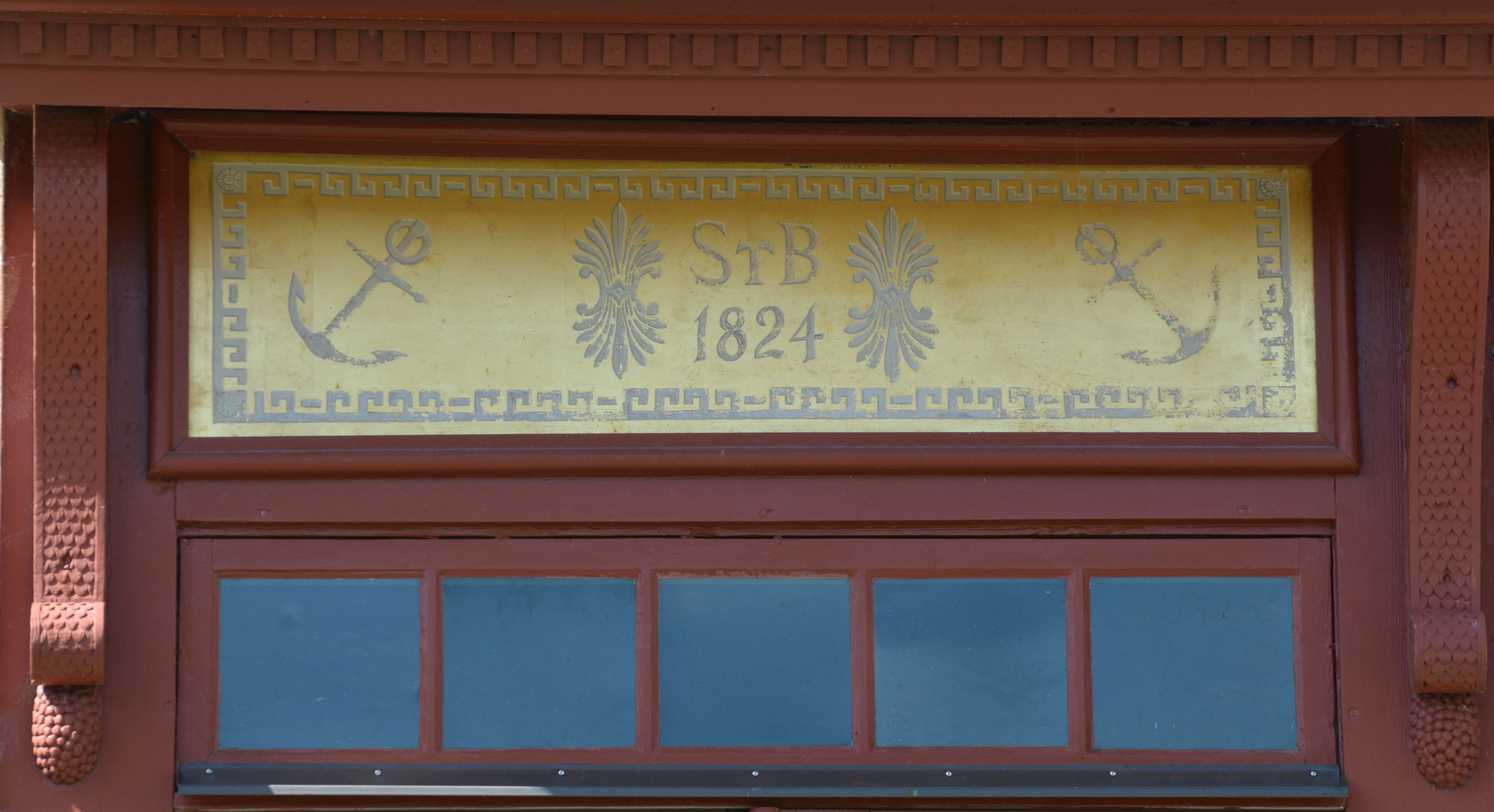 Skylt ovanför ingången till Herrgården i Storebro